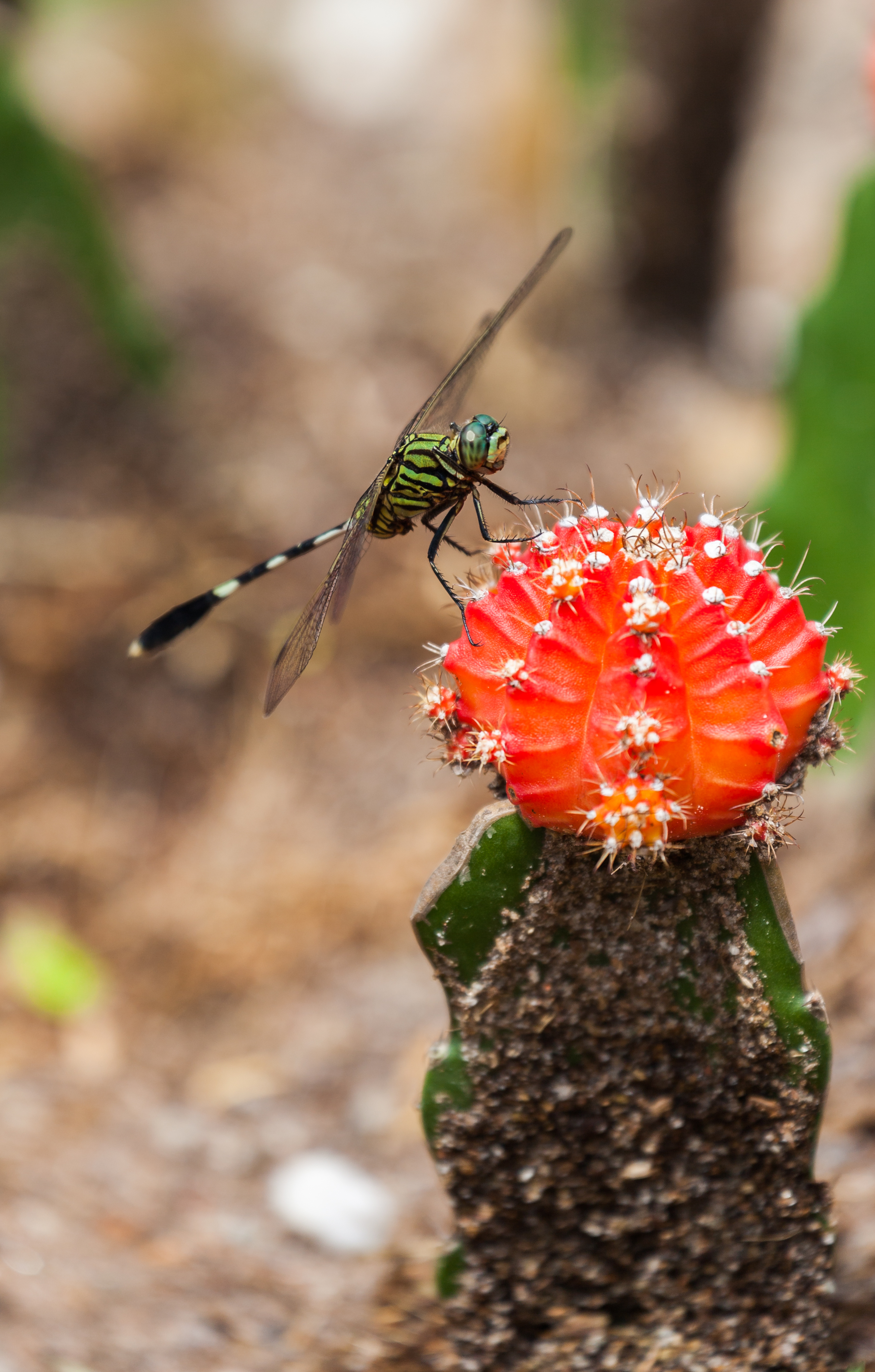 Dragonfly (Orthetrum sabina) on a Gymnocalycium mihanovichii, Ho Chi Minh City, Vietnam